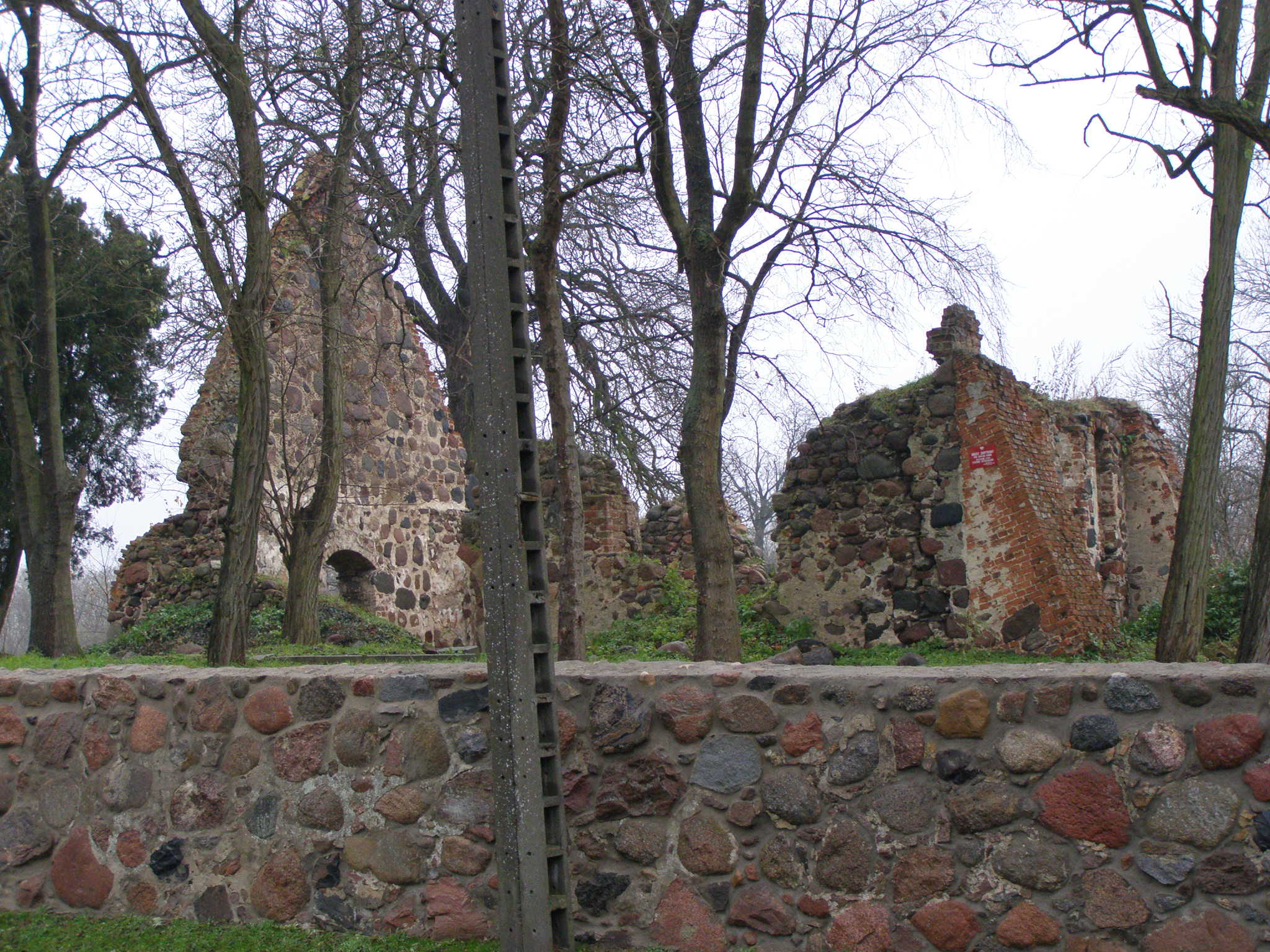 Moczyły, Police County